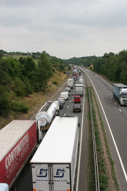 Traffic Laden A14 - Eastbound